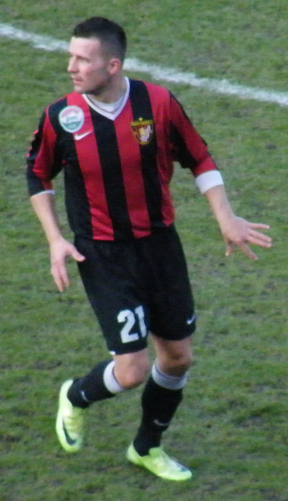 Zoltán Hercegfalvi Hungarian football player